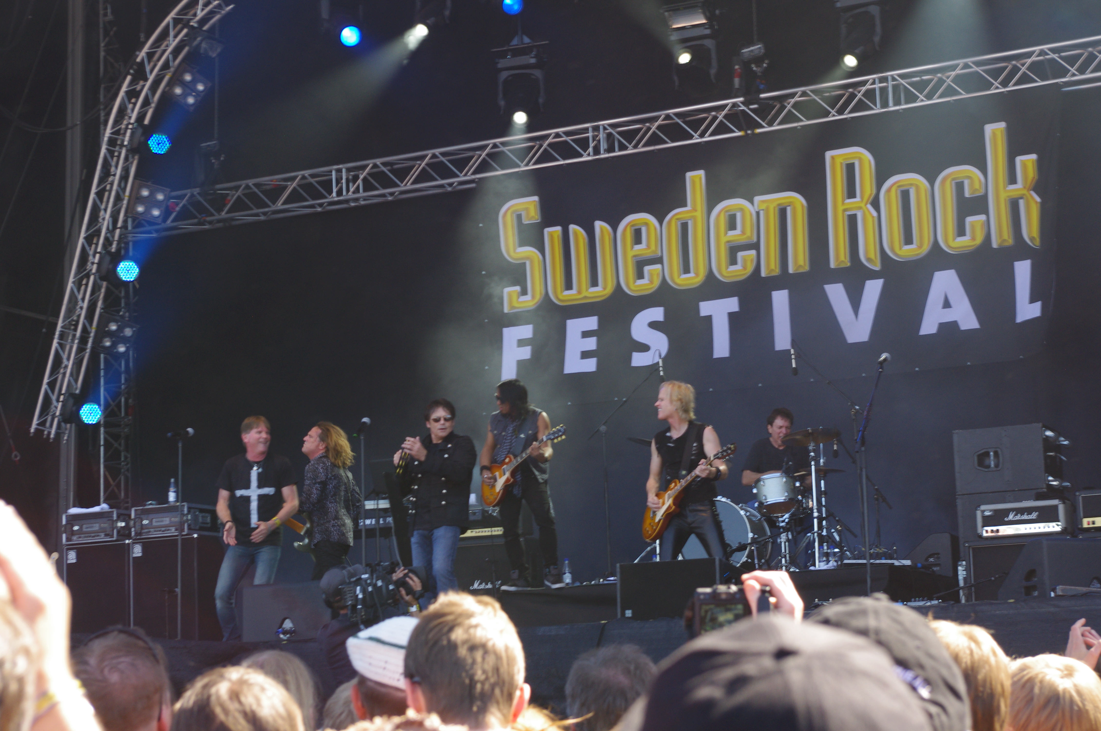 Survivor at Sweden Rock Festival in 2013